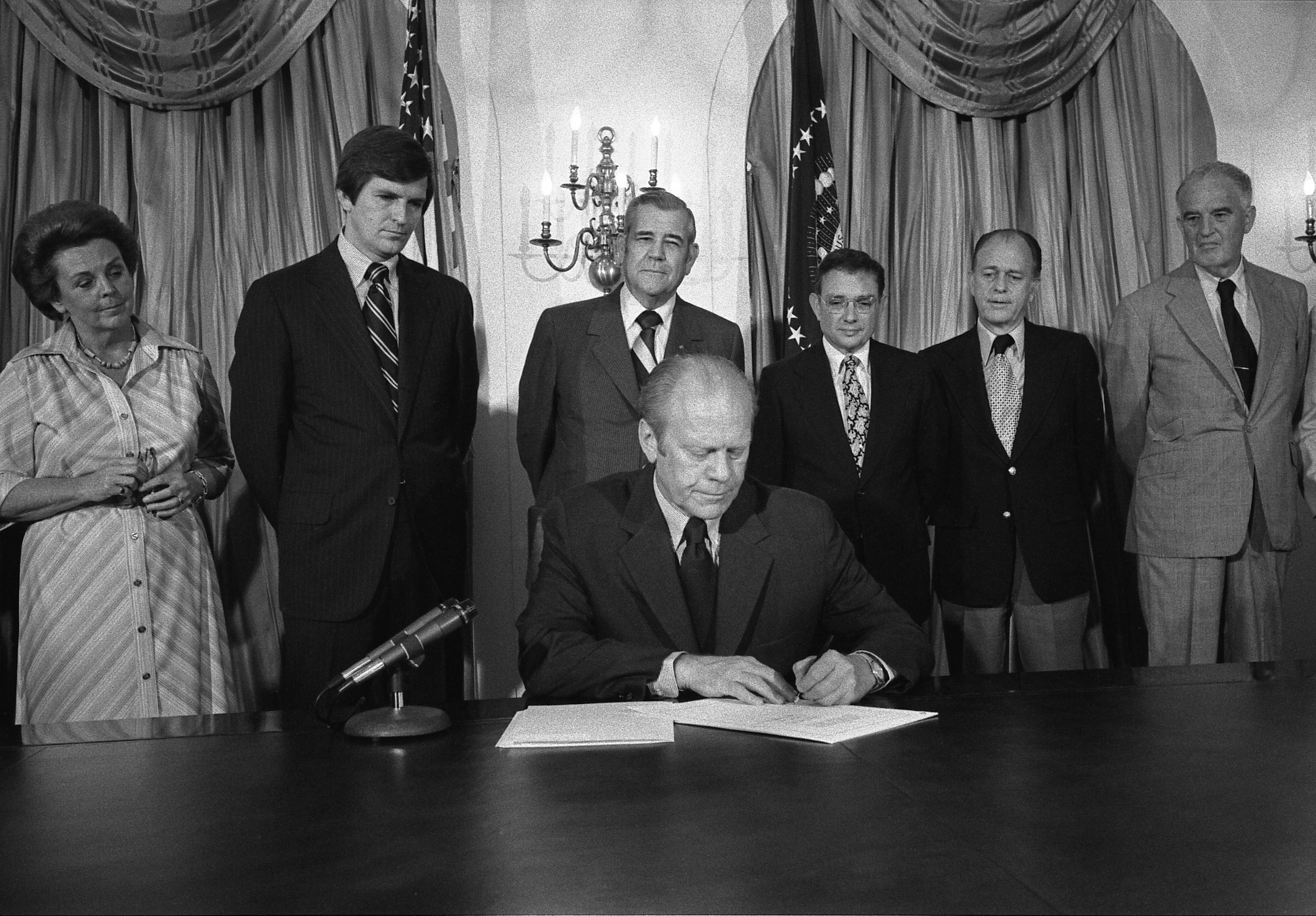 This photograph depicts President Gerald Ford signing S.3735, authorizing the 1976 National Swine Flu Immunization Program. Also shown are [l-r]: Department of Health Education and Welfare (HEW) Undersecretary Marjorie Lynch, HEW Secretary F. David Mathews, U.S. Rep. Tim Lee Carter (R-KY), Assistant Secretary for Health (HEW) Dr. Theodore Cooper, HEW General Counsel William H. Taft, IV, and HEW Assistant General Counsel Bernard Feiner.